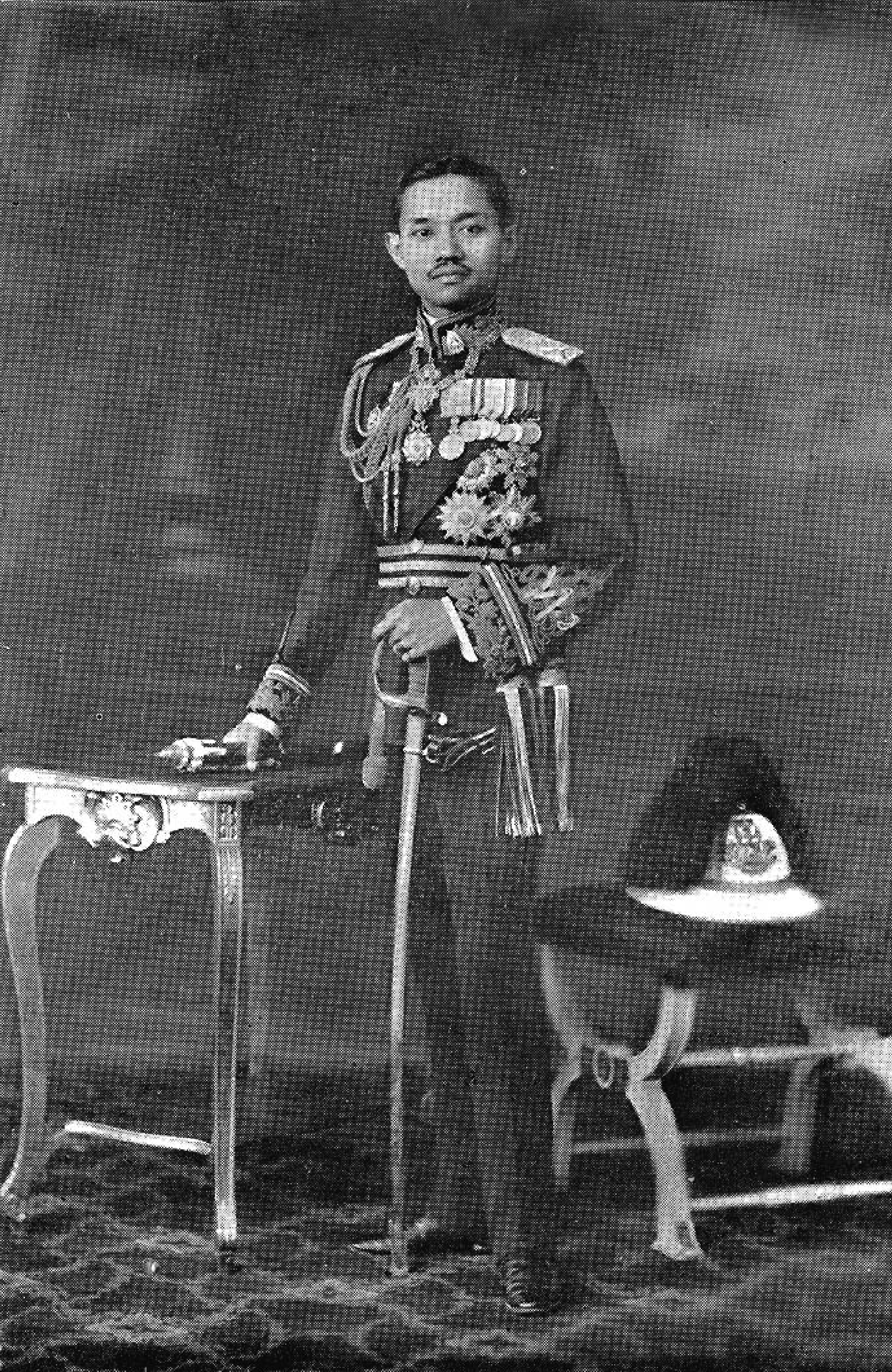 King Prajadhipok of Siam wears a full king's guard uniform.